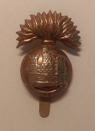 Photo of Royal Inniskilling Fusiliers Cap Badge from personal collection